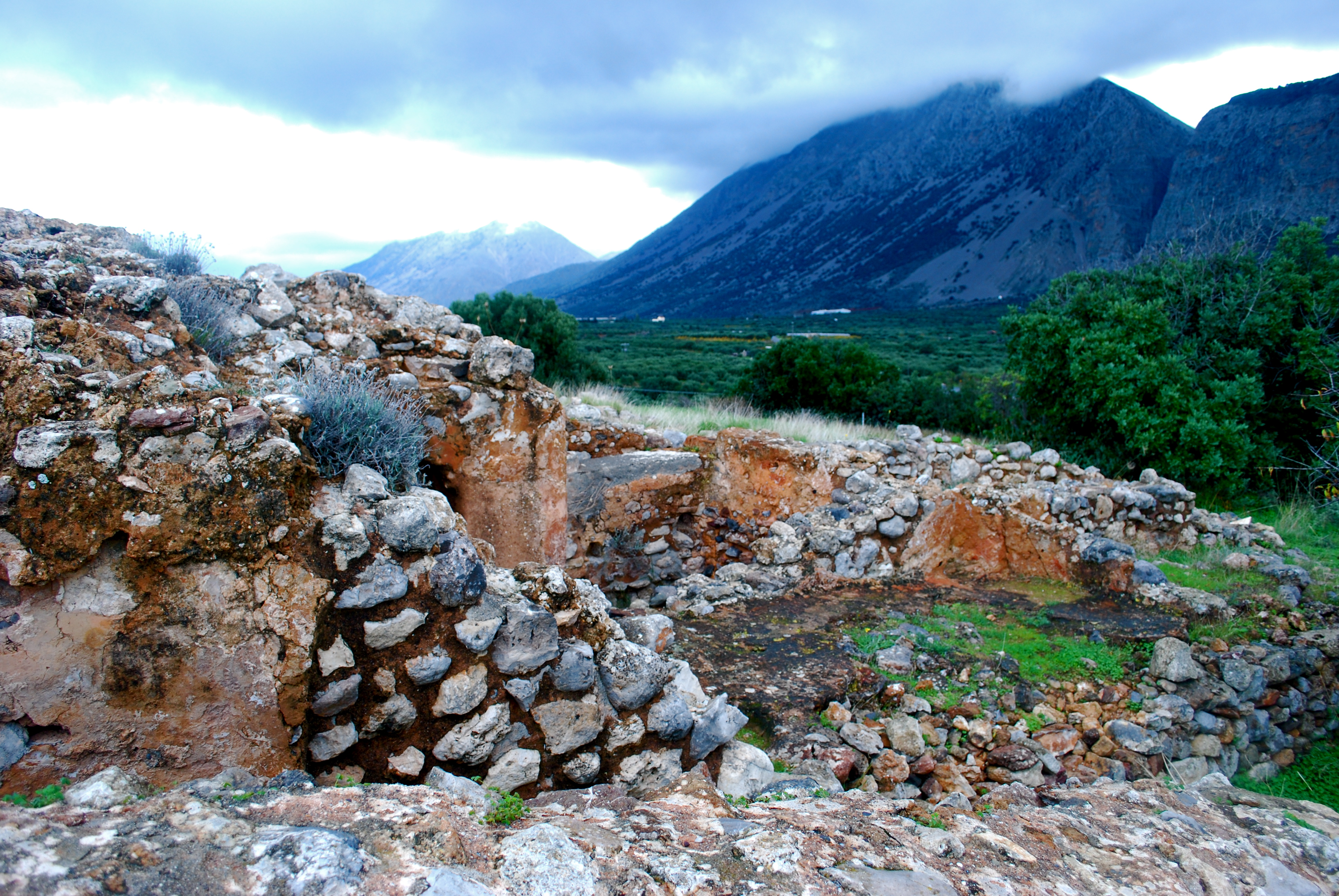 Archaeological site of Vasiliki, Crete, back ground: Ha Gorge